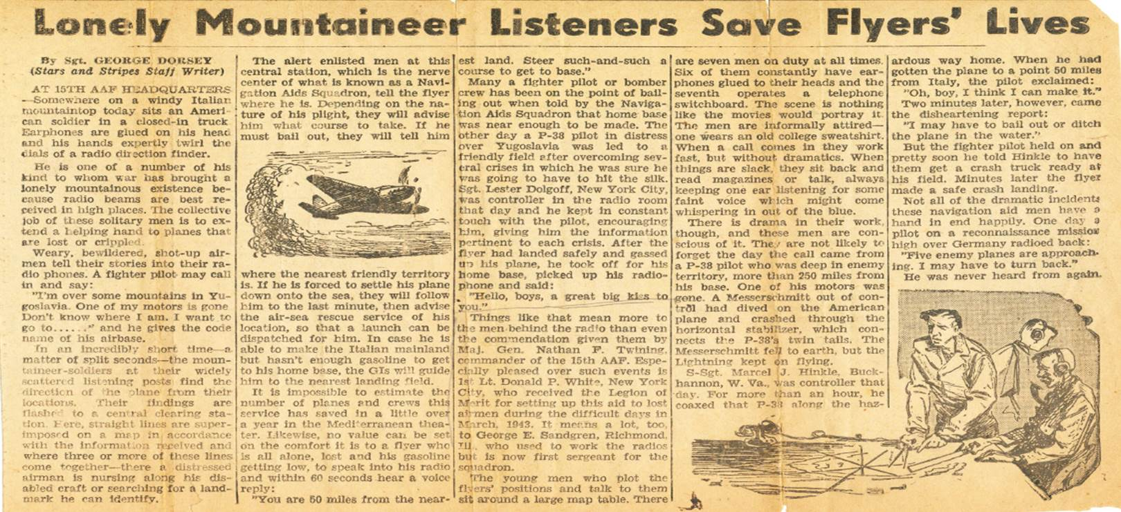 Mediterranean Naples Stars and Stripes, April 19, 1944, p.5